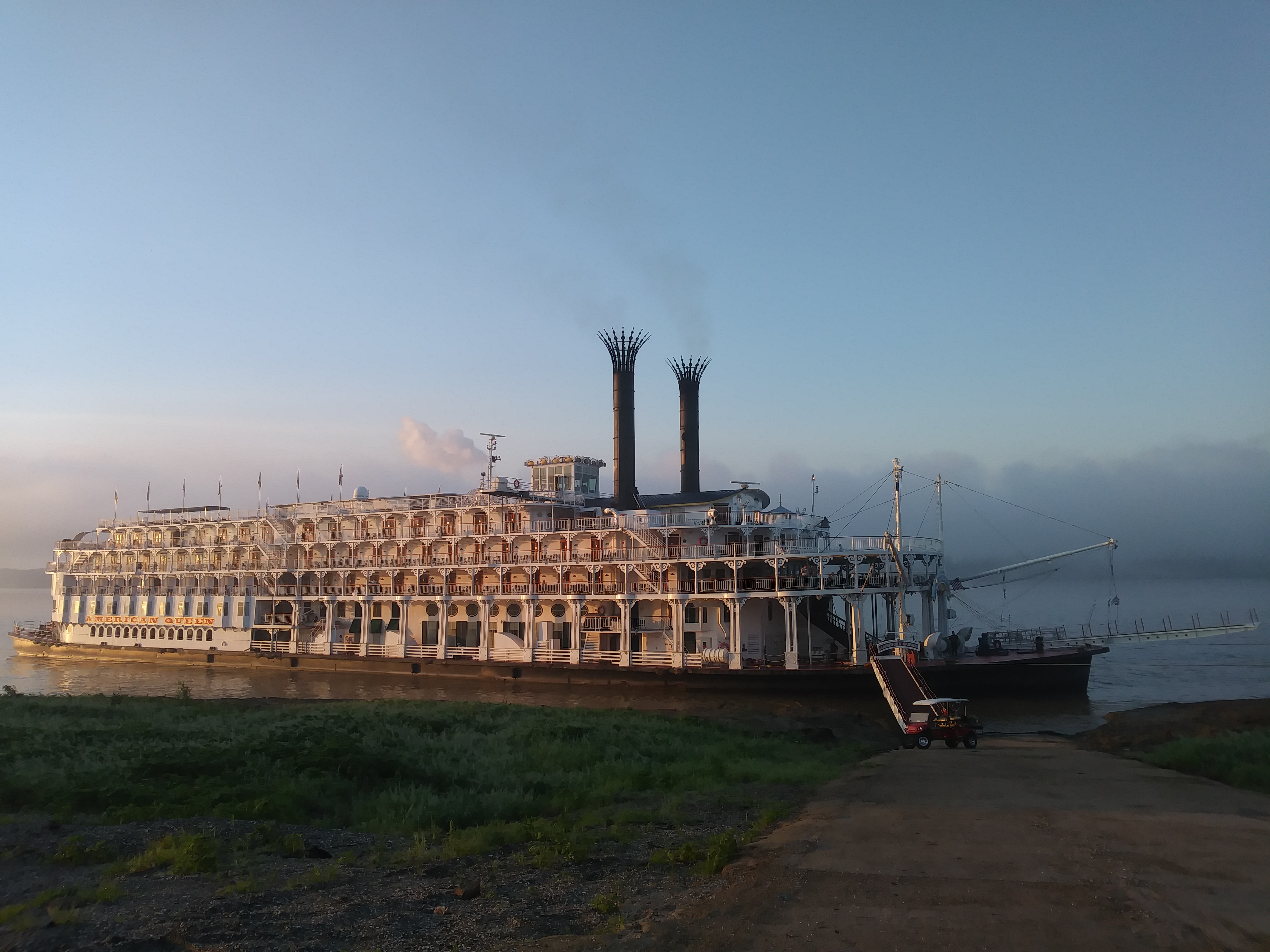 American Queen steamboat docked at a boat ramp in St. Francisville, Louisiana on September 1, 2017. Pictured in morning time with passengers onboard.